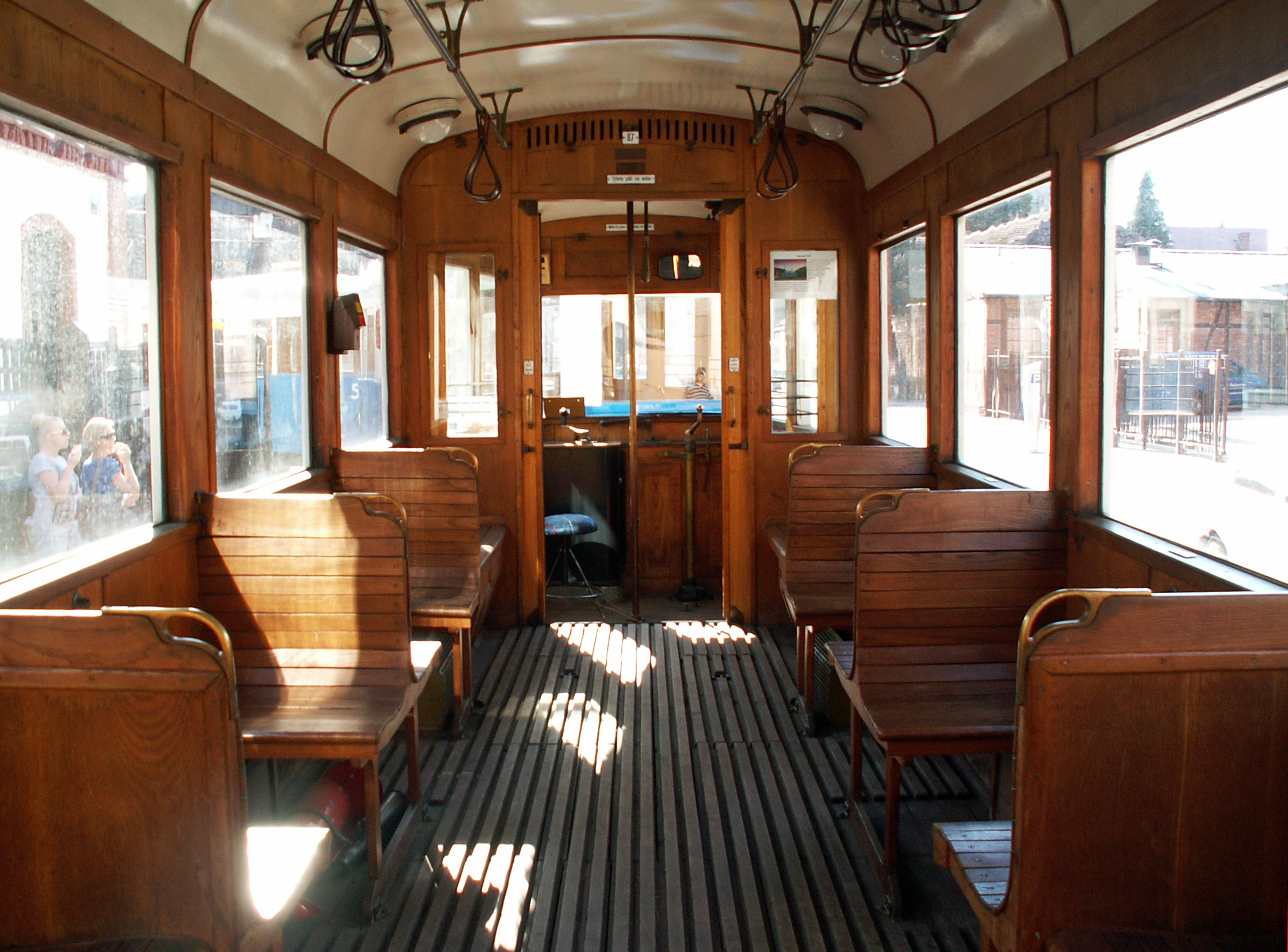 Tram SN2 interior, Wawrzyńca street, Kazimierz, Krakow, Poland